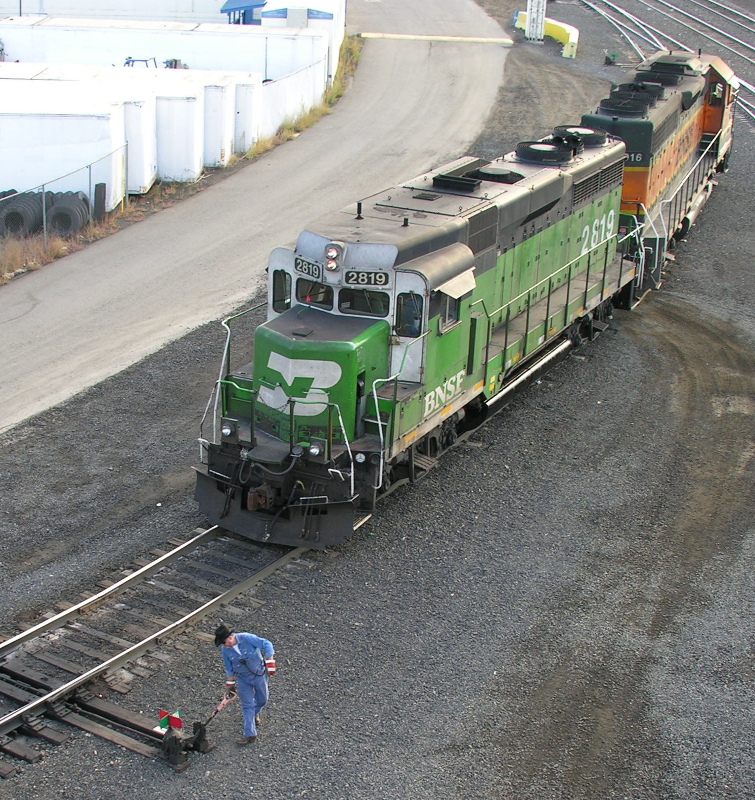 railroad switchyard switch engine, Spokane, Washington / 2007